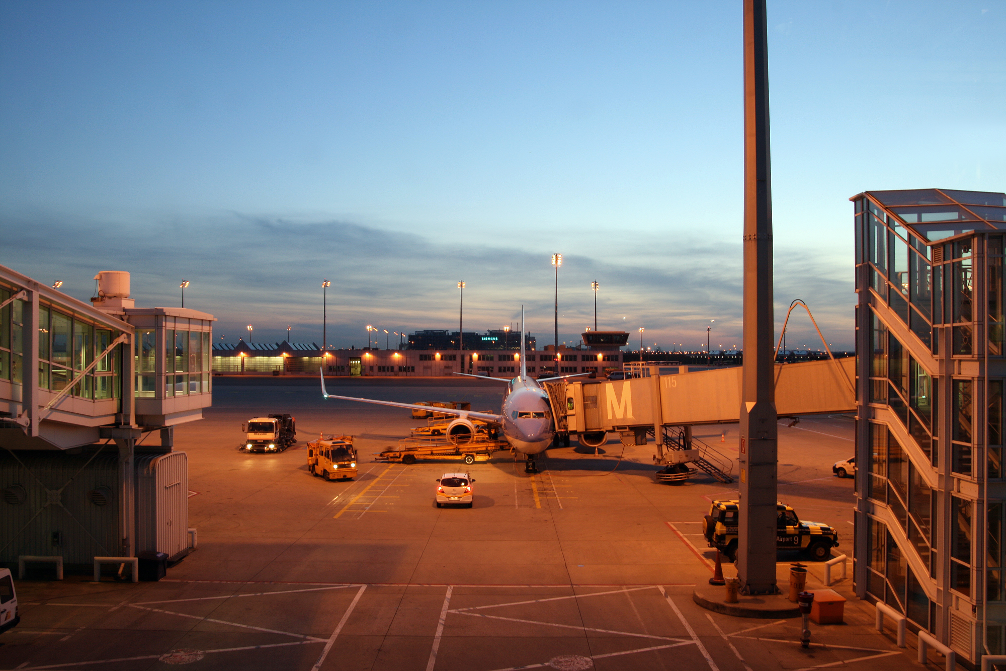 Description: Munich Airport plane handling at sunset..